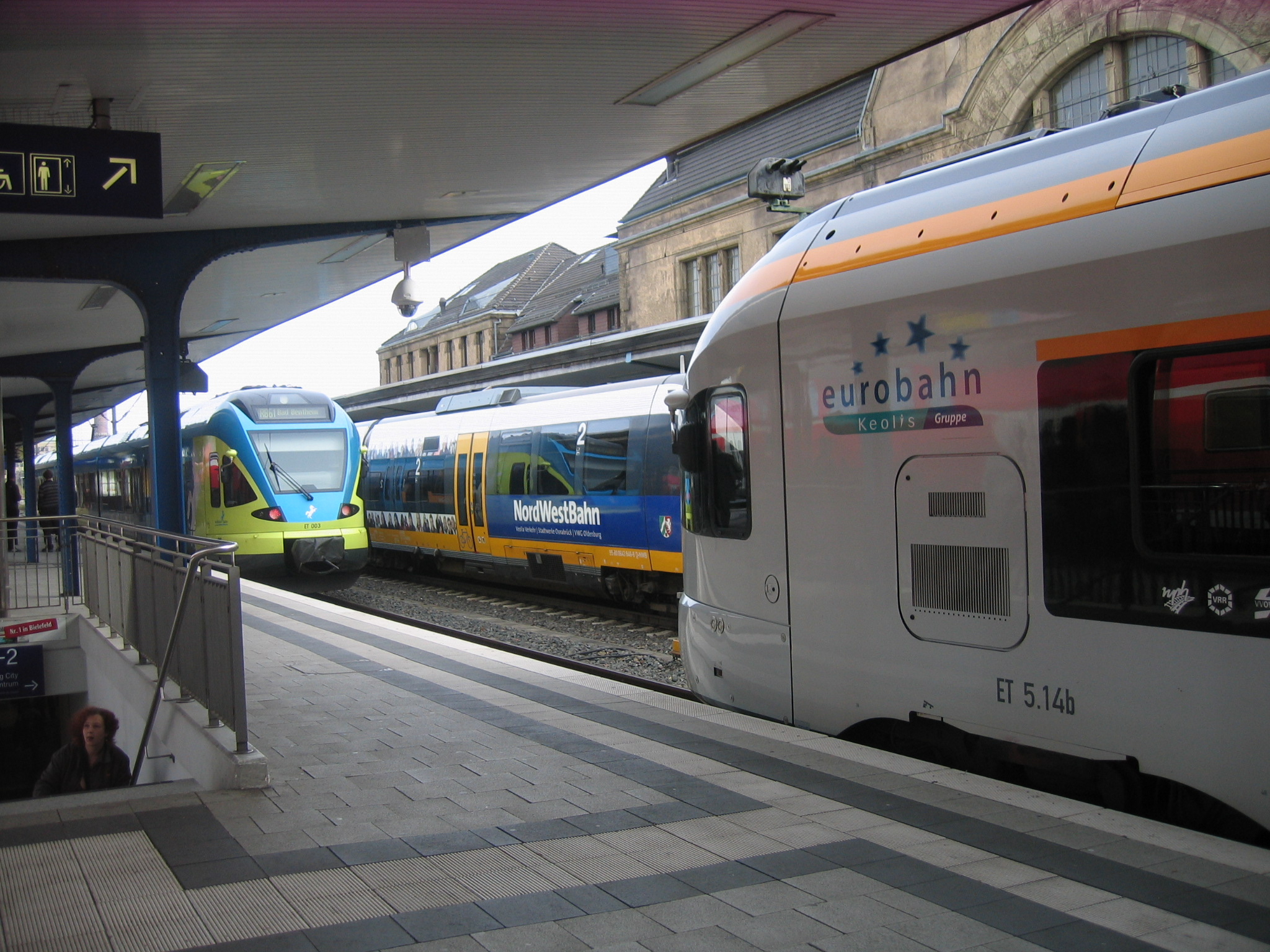 Main station in Bielefeld, North Rhine-Westphalia, Germany.